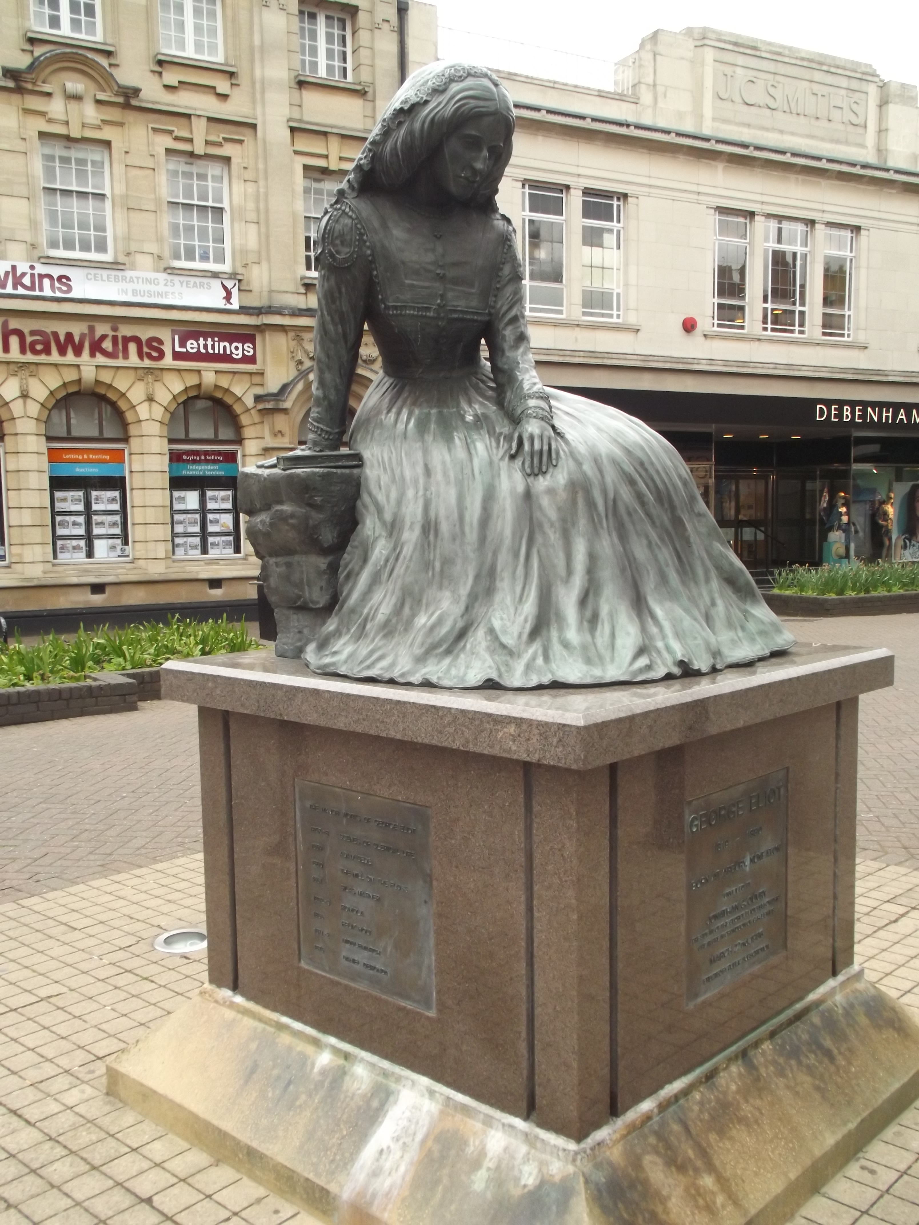 Seen on Newdegate Street in Nuneaton. The road curves around towards Bridge Street and Queen Road. Statue of Mary Ann Evans (George Eliot). Mary Ann Evans (George Eliot). Novelist, essayist, journalist and poet. Lived at Griff House until 1840 when she moved to Coventry and later to London. From 1854 to 1878 she lived with G. H. Lewes who encouraged her to write fiction. Her novels brought her world wide fame. In May 1880, she married J. W. Cross and died in December at 4, Cheyne Walk, Chelsea. She is buried in Highgate Cemetery, London. George Eliot 1819 - 1880 Born at Arbury, Nuneaton. Unveiled by Jonathan G. Ouvry president of the George Eliot Fellowship, Great, Great Grandson of G. H. Lewes. March 22nd 1986. Erected by public subscription.